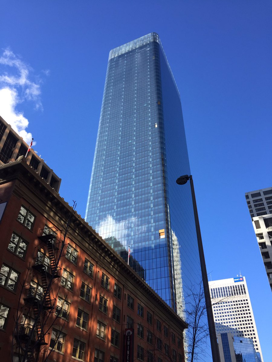 This is an image of Brookfield Place, the new tallest building in Calgary, nearing completion. Taken in February 2017.